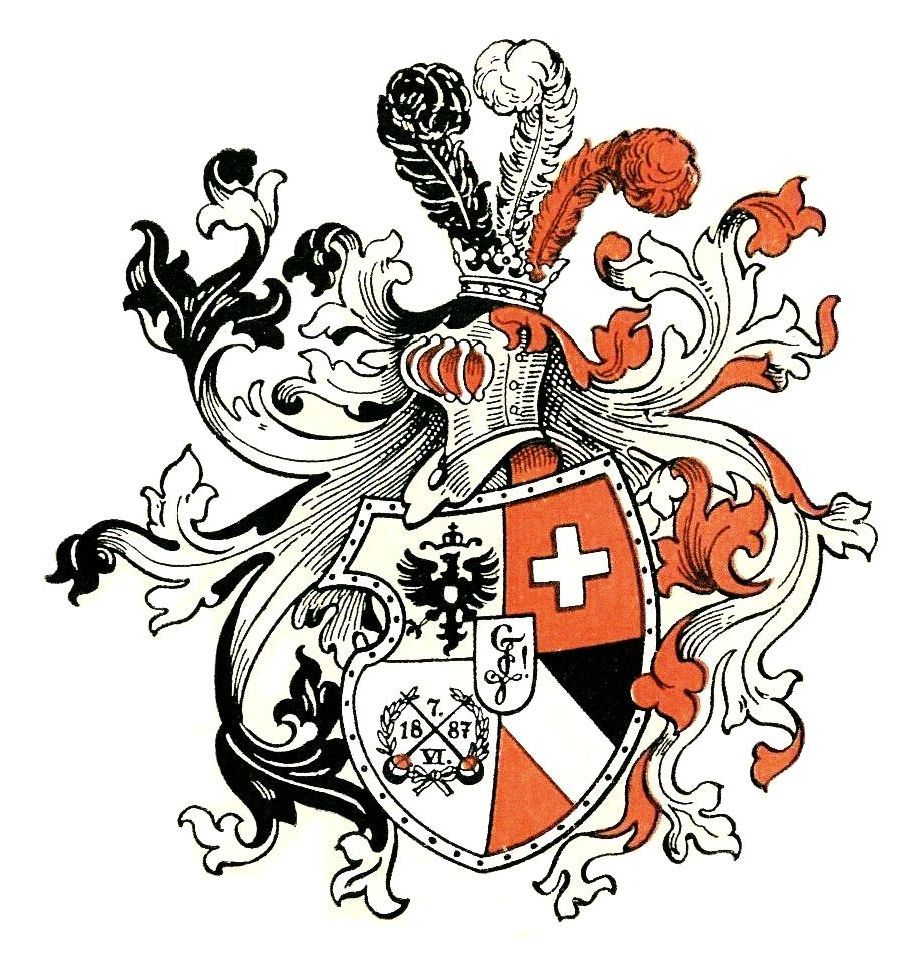 Coat of arms of the Société d'Étudiants Germania Lausanne.